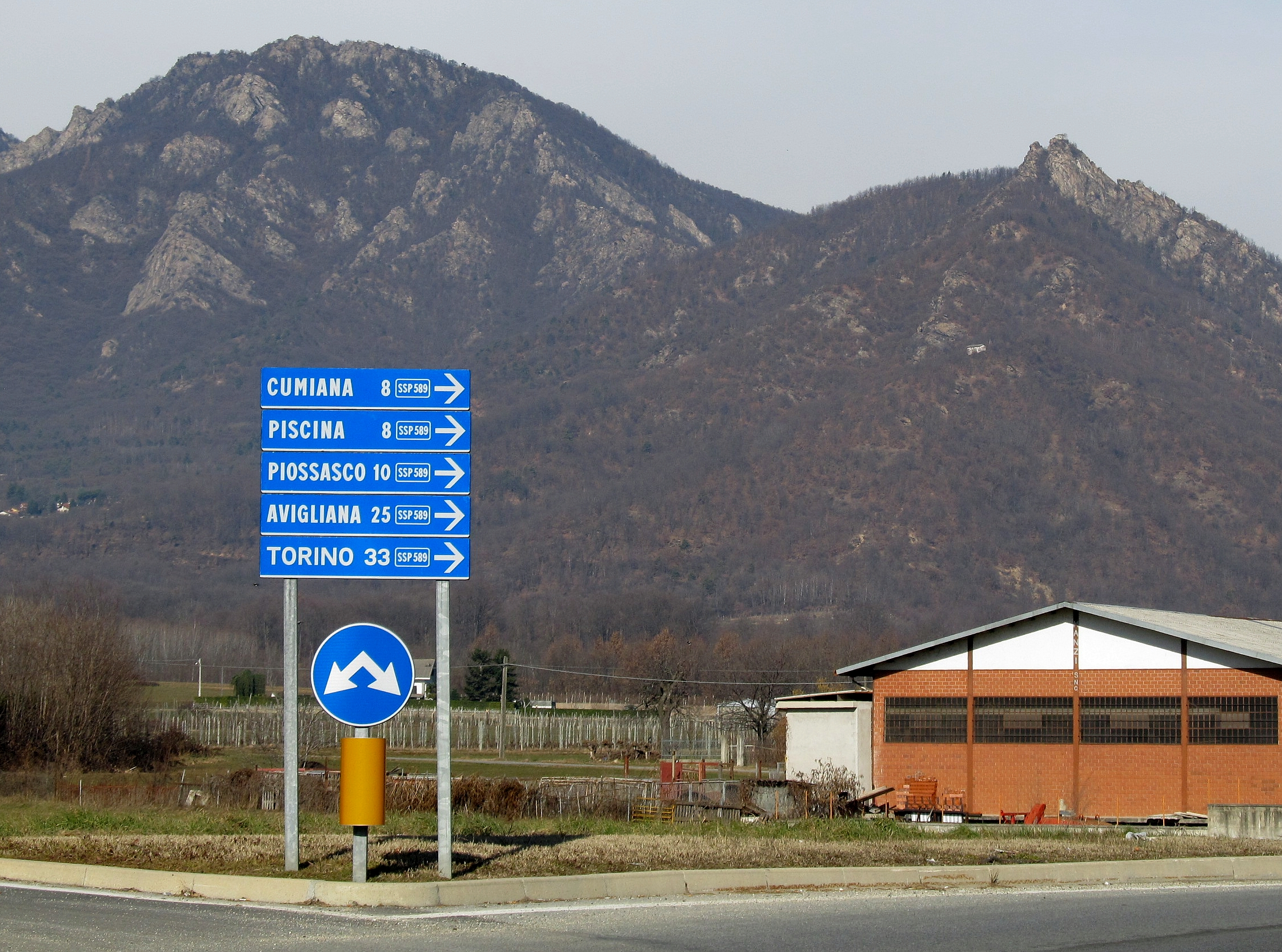 Provincial road 589 near Tavernette (TO, Italy), in the background Rocca Due Denti and Monte Brunello (Cottian Alps)